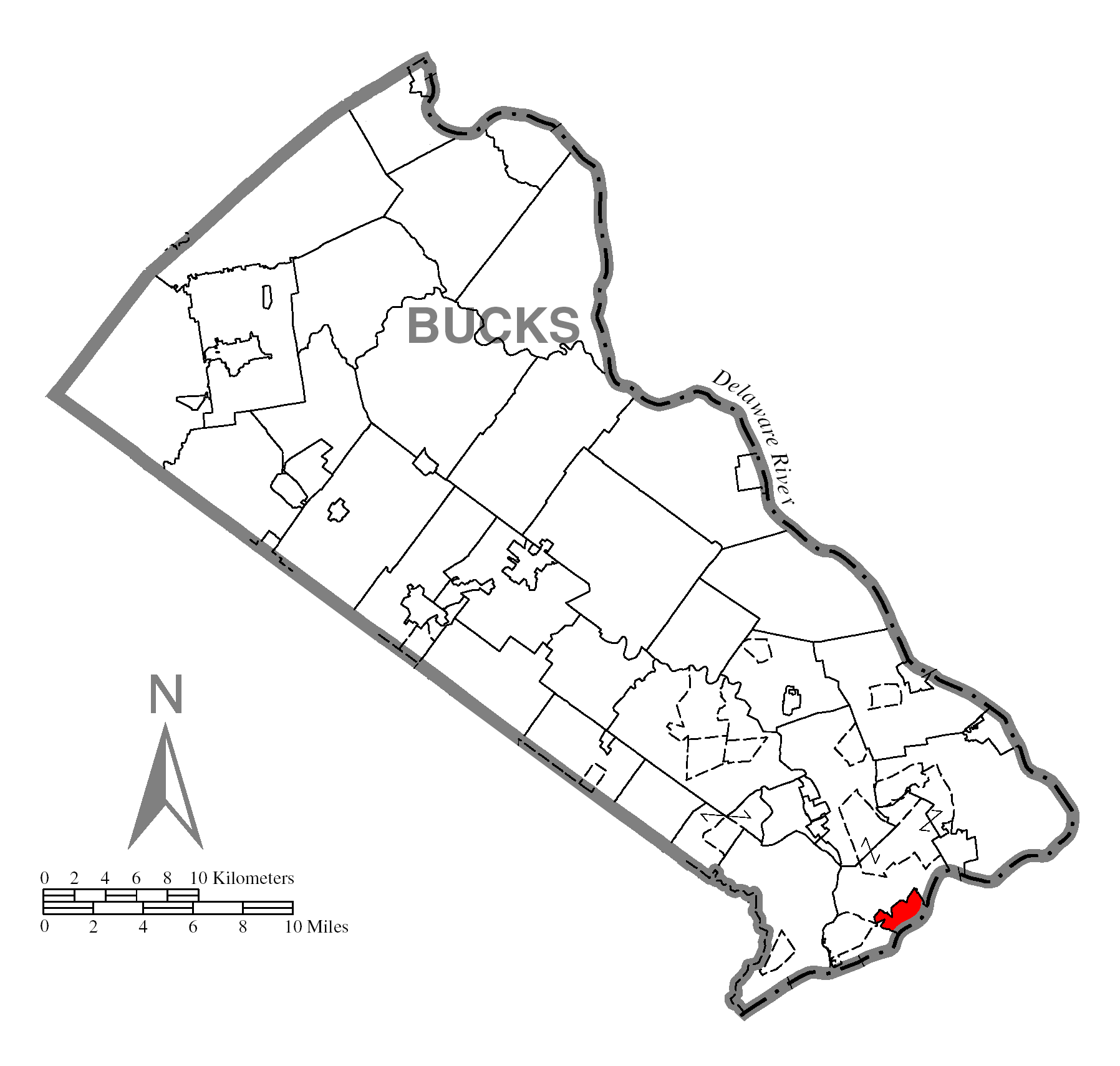 A map of Bucks County showing Bristol, Pennsylvania (alternate) highlighted on the map.